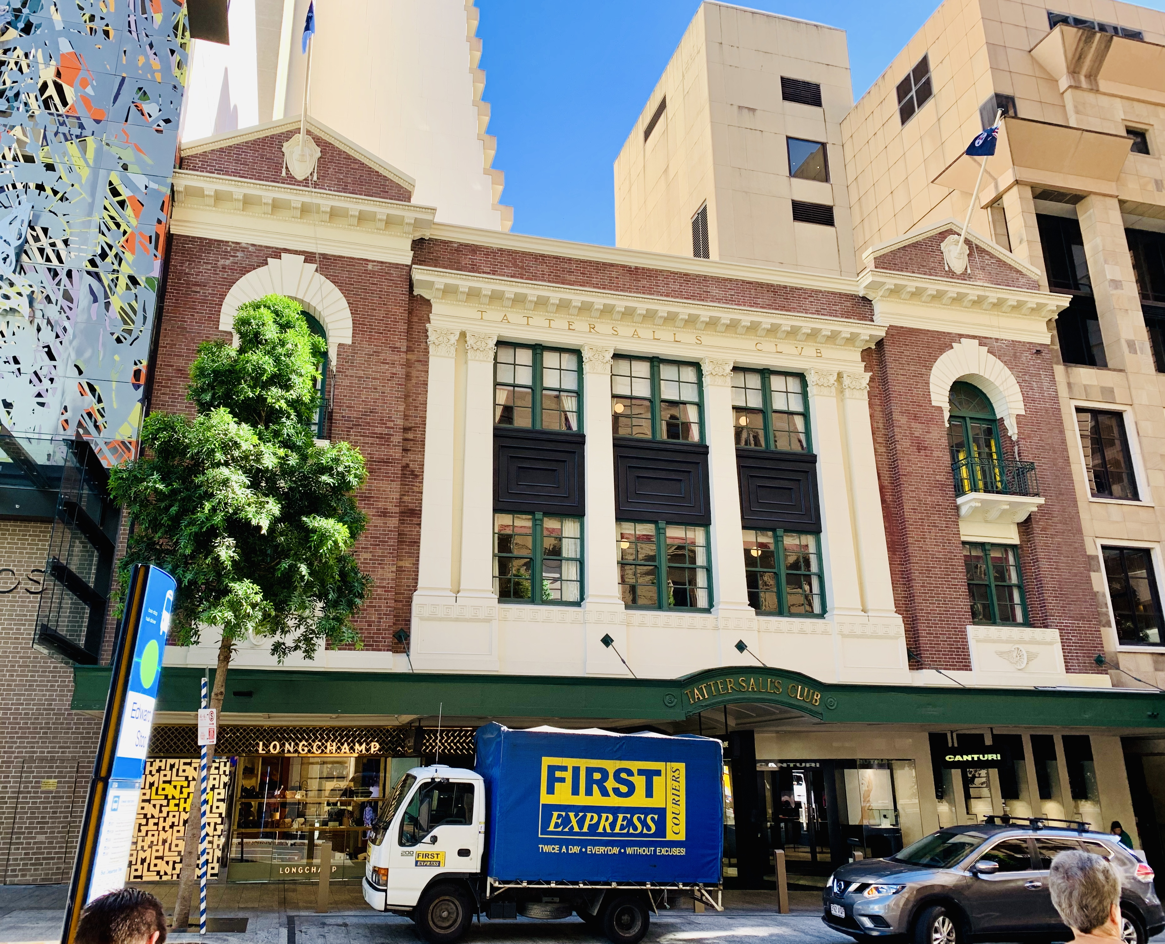 Tattersalls Club - Edward Street frontage, 2019